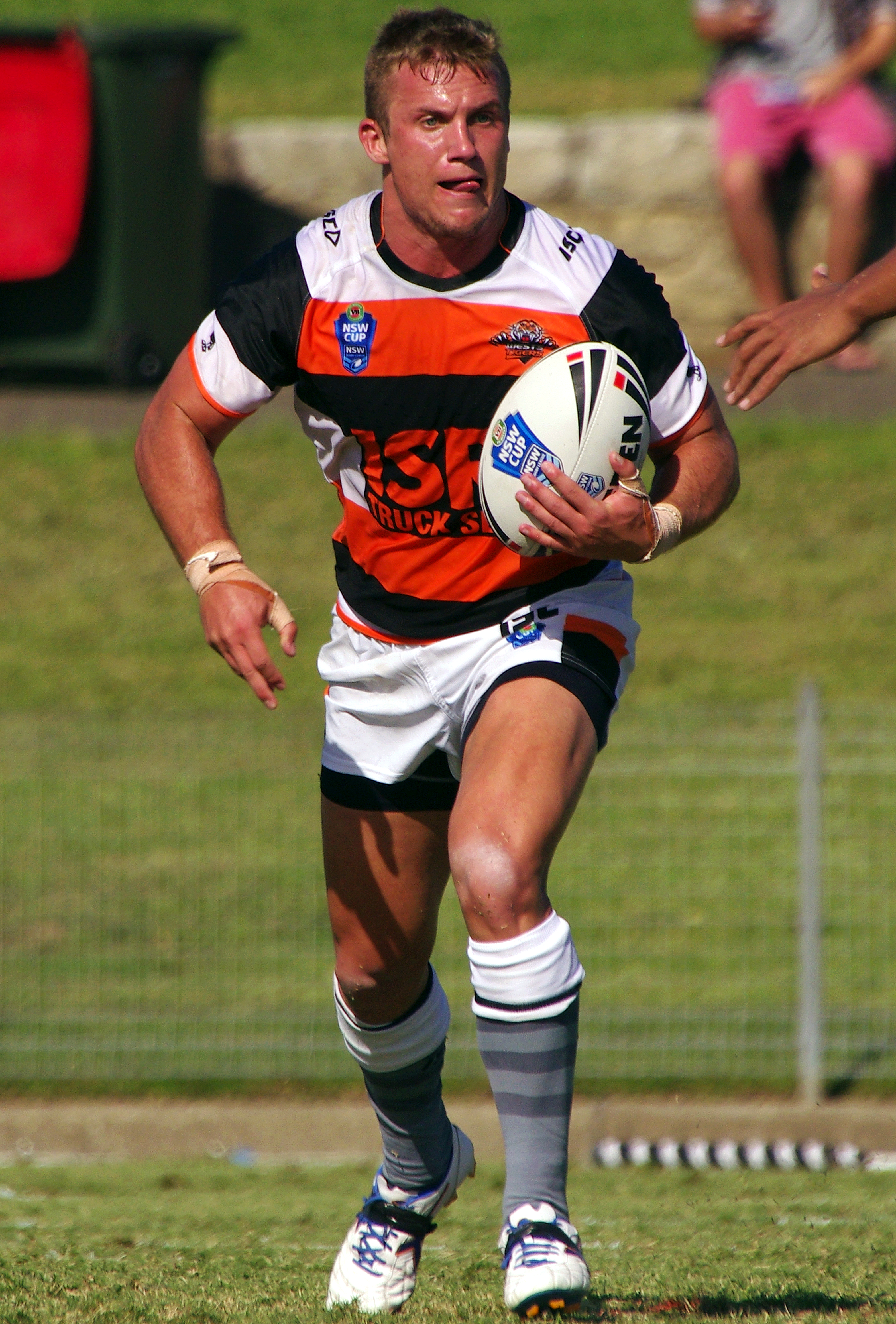 Josh Drinkwater